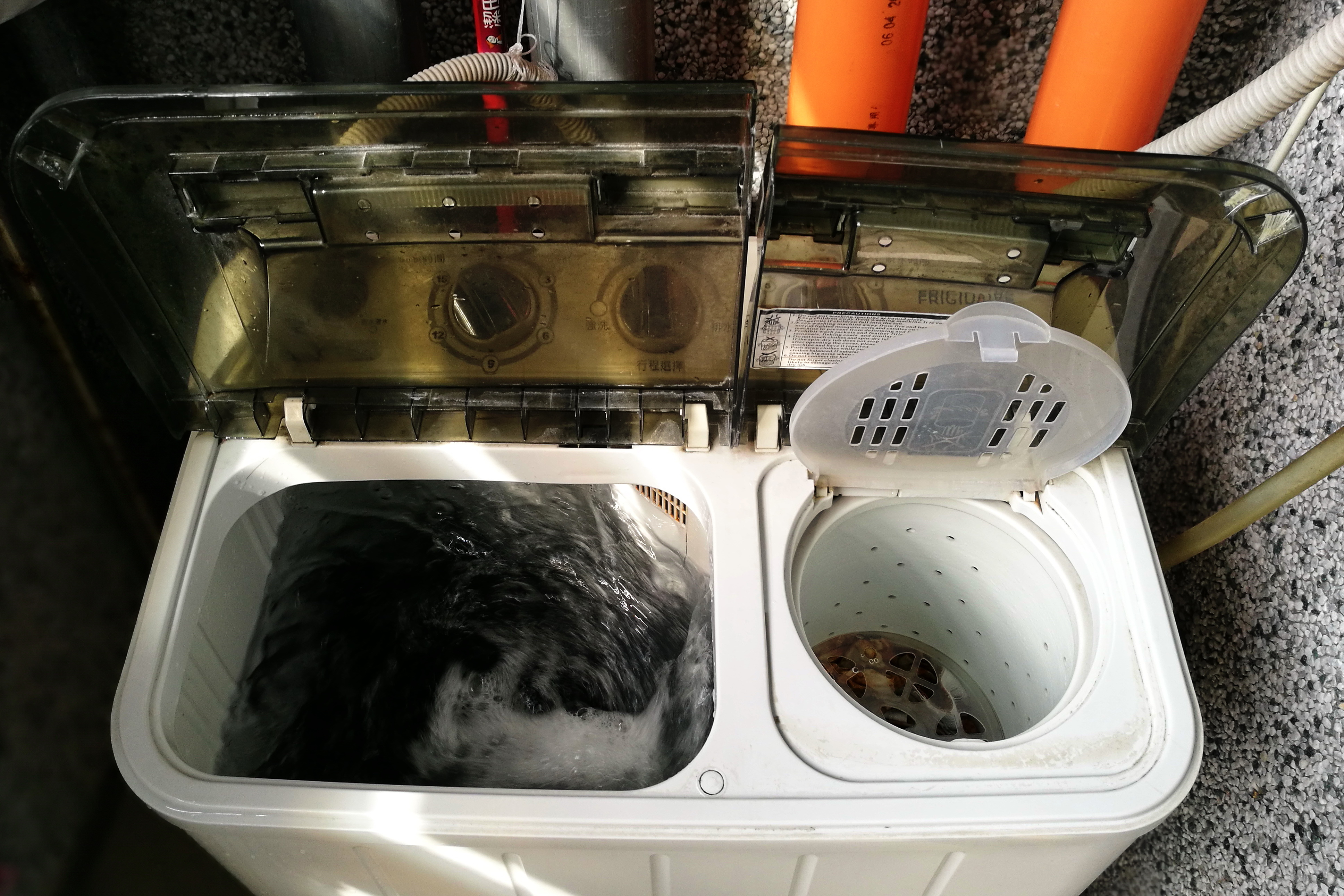 A Frigidaire FAW-0351MT semi-automatic washing machine (3.5Kg)